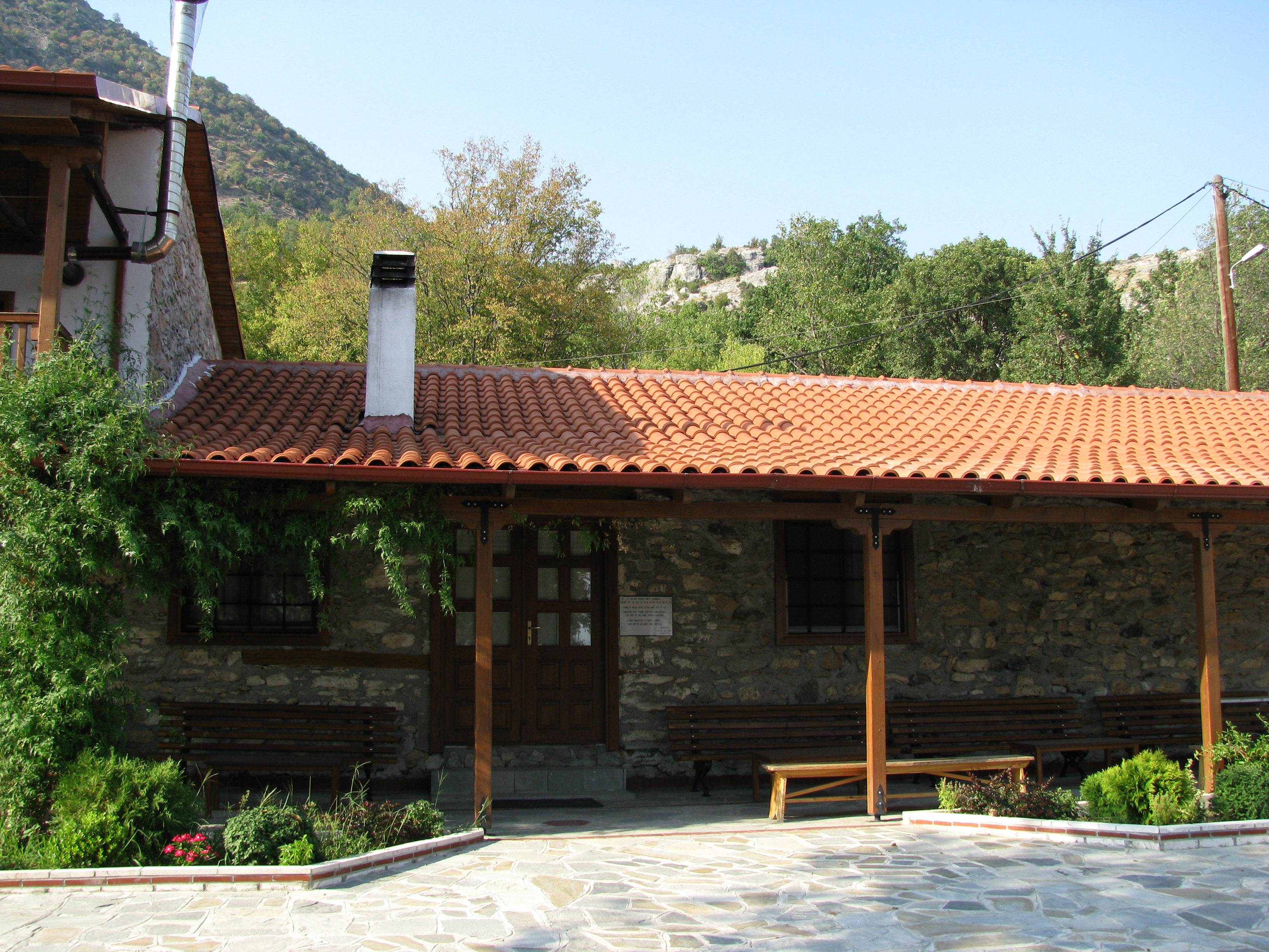 Monastery of st.Ilarion of Muglen, near Bahovo, Aegean Macedonia